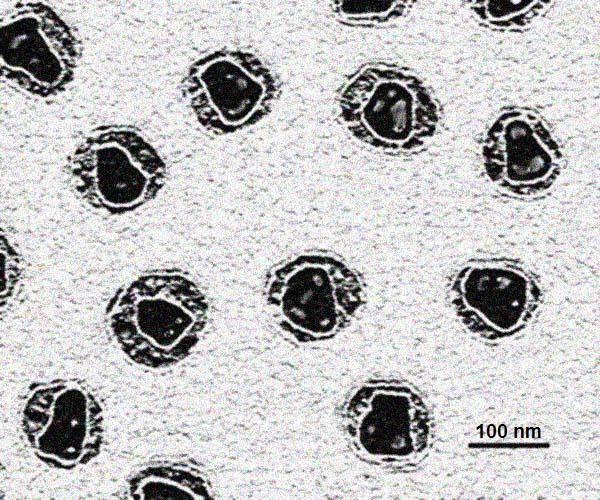 Micrograph from a transmission electron microscope of HIV Retrovirus, sample taken of diluted infectious serum, isolated; from my lab, image enhanced slightly. Scale at bottom right.